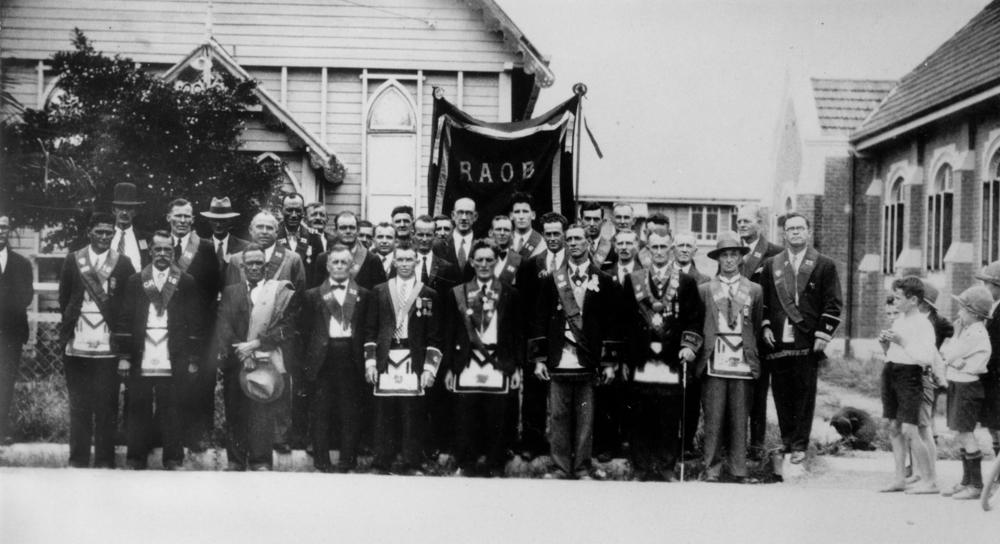 Members of the Royal Ancient Order of Buffalos gather outside their Lodge, Ingham, Queensland, 1935 Small boys watch from the sidelines as the RAOB pose in their regalia. Some of the men are wearing medals and ceremonial aprons.